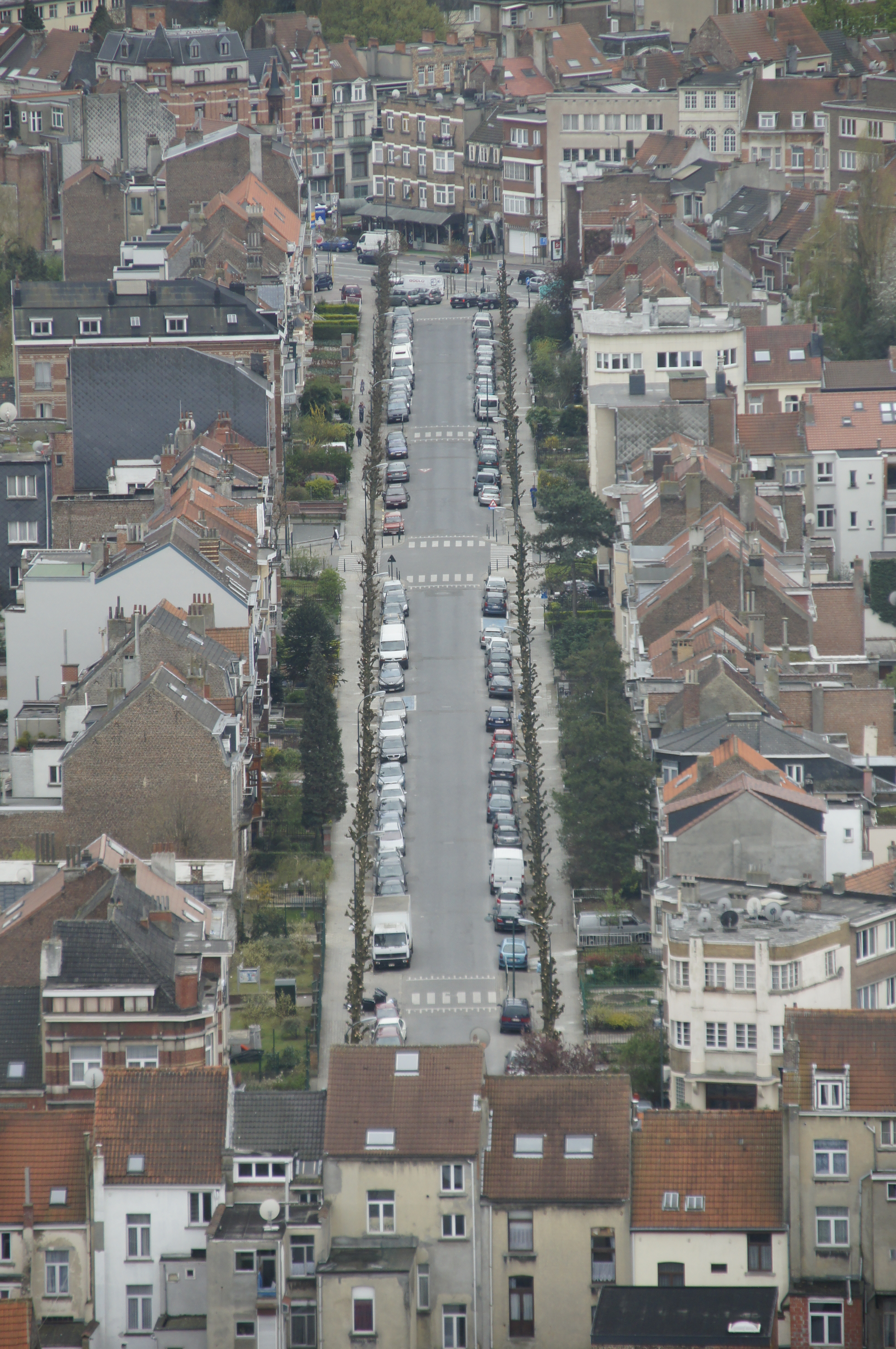 View of Stevens-Delannoystreet in Brussels, picture taken from the top globe of the Atomium.